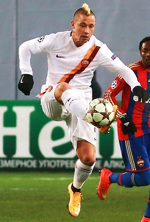 Radja Nainggolan